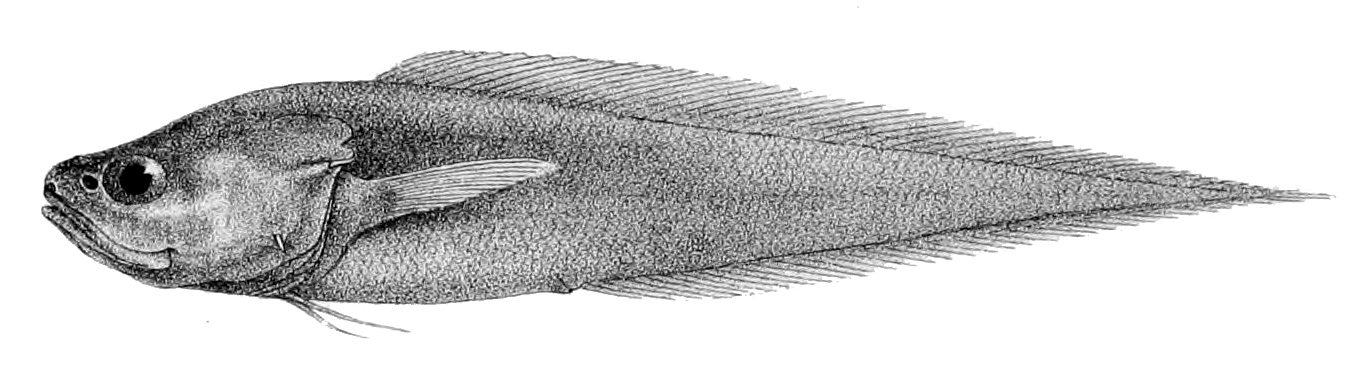 Diplacanthopoma brachysoma